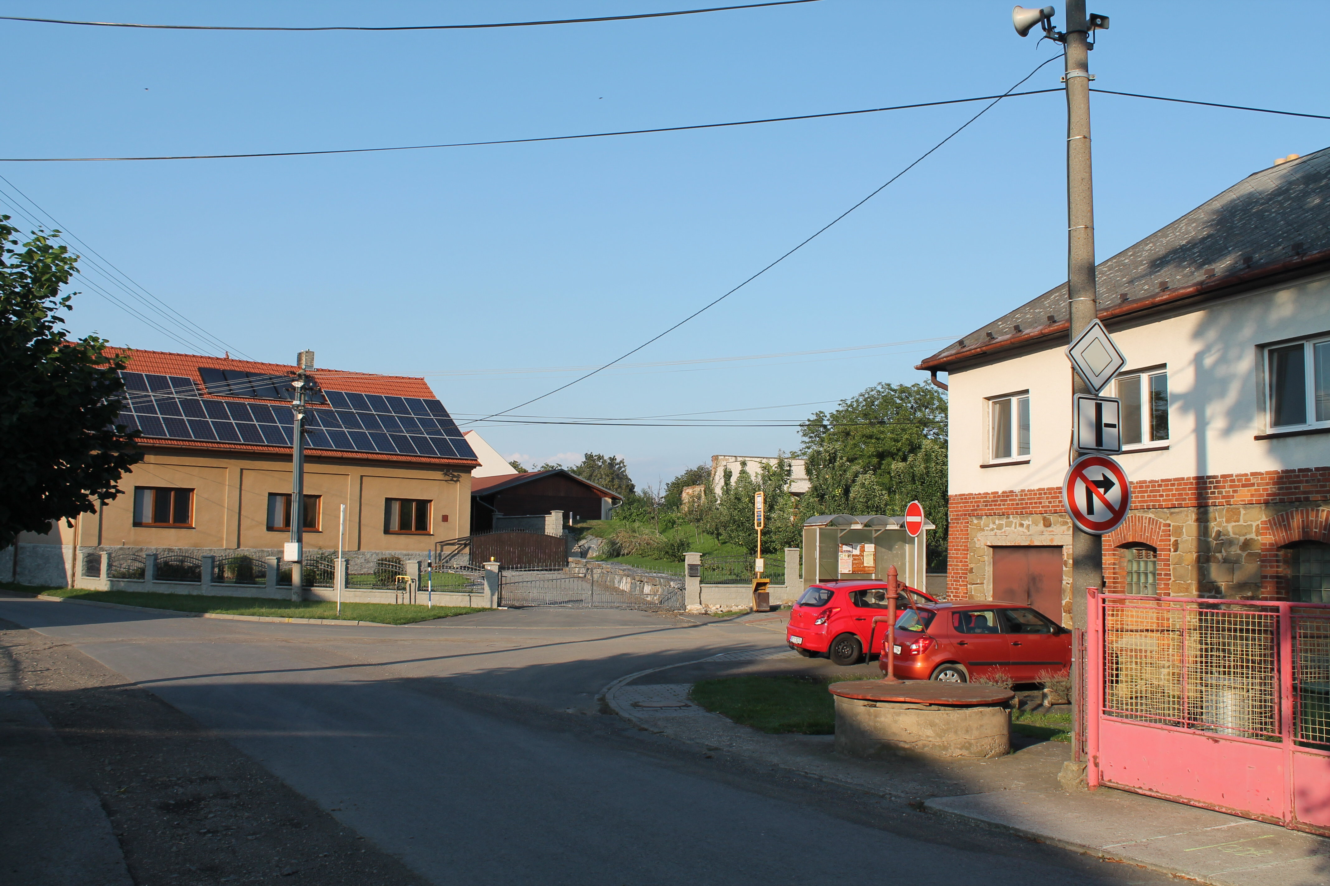 Jarkovice, Opava, Opava District, Czech Republic